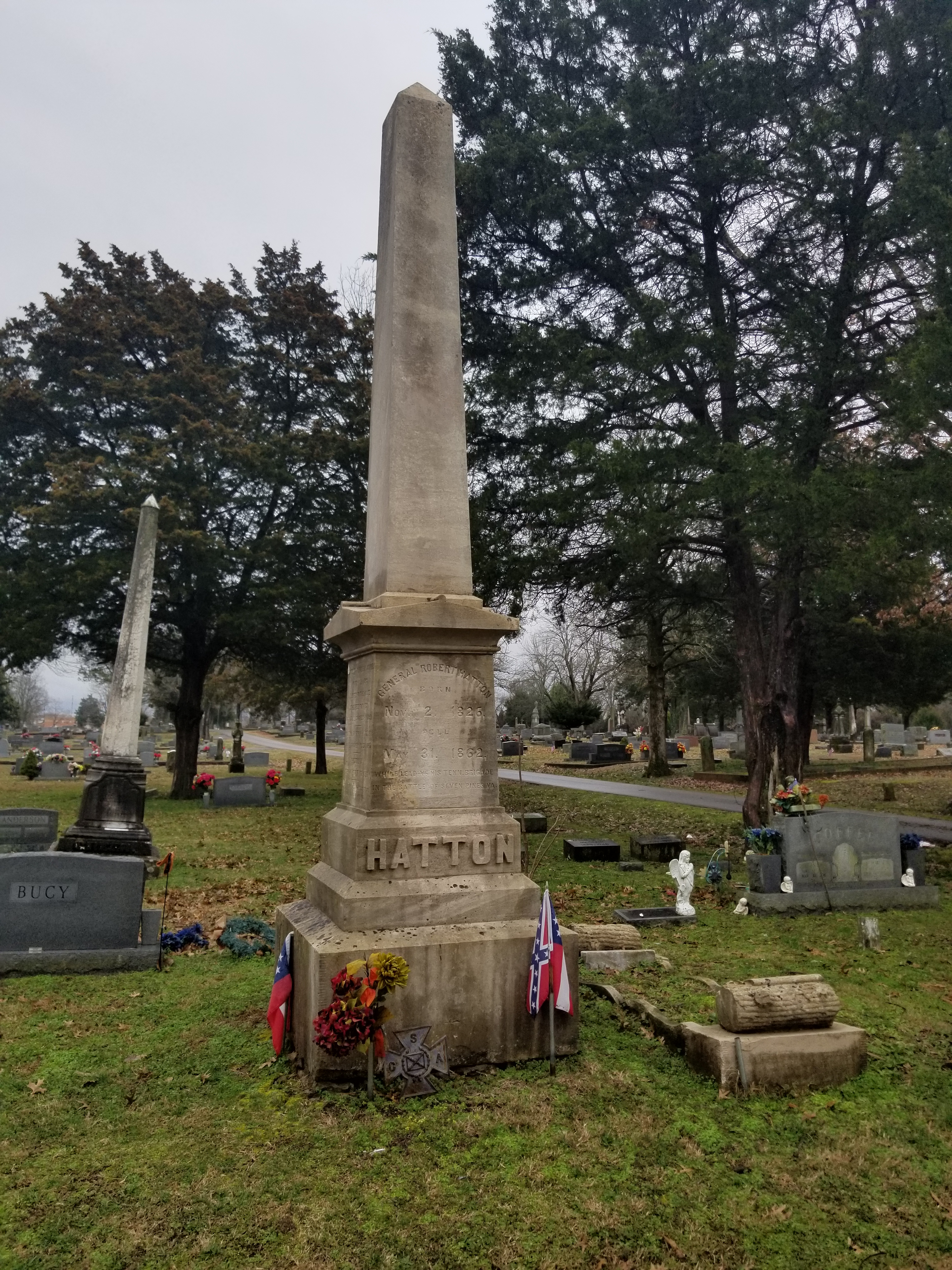 General Robert Hatton's gravesite in Lebanon, Tennesee.